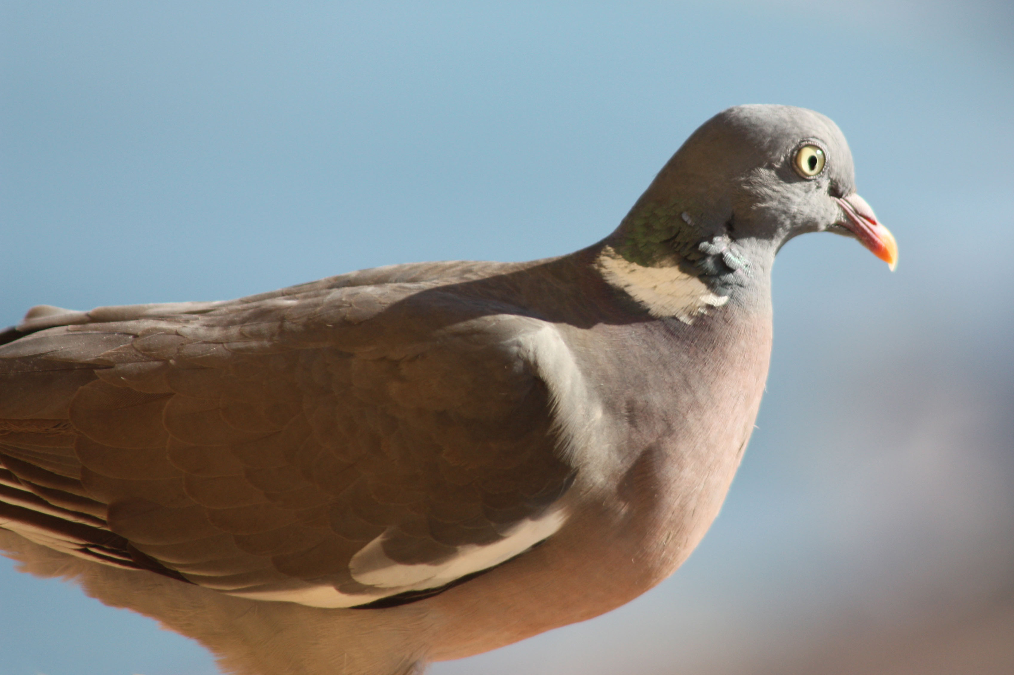 Male common wood pigeon in Taormina in Sicily.